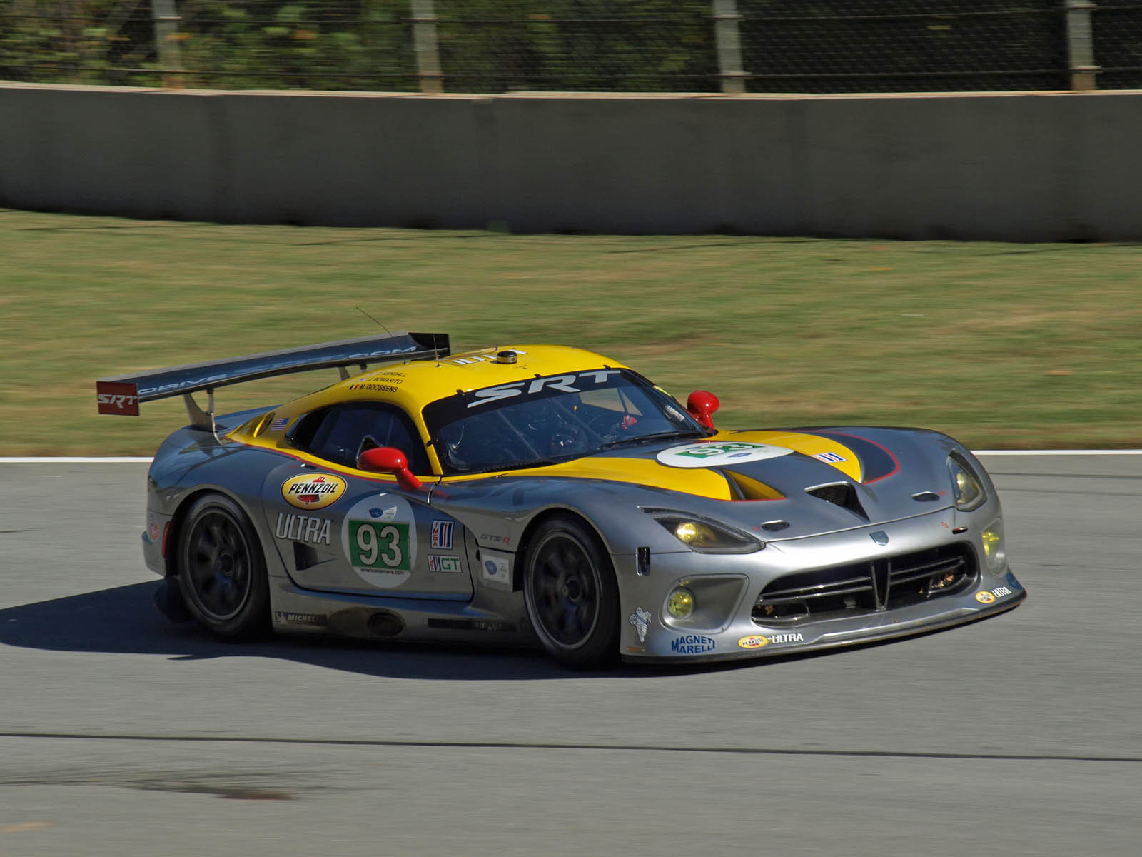 Marc Goossens in the SRT Motorsports SRT Viper GTS-R during qualifying for the 2012 Petit Le Mans